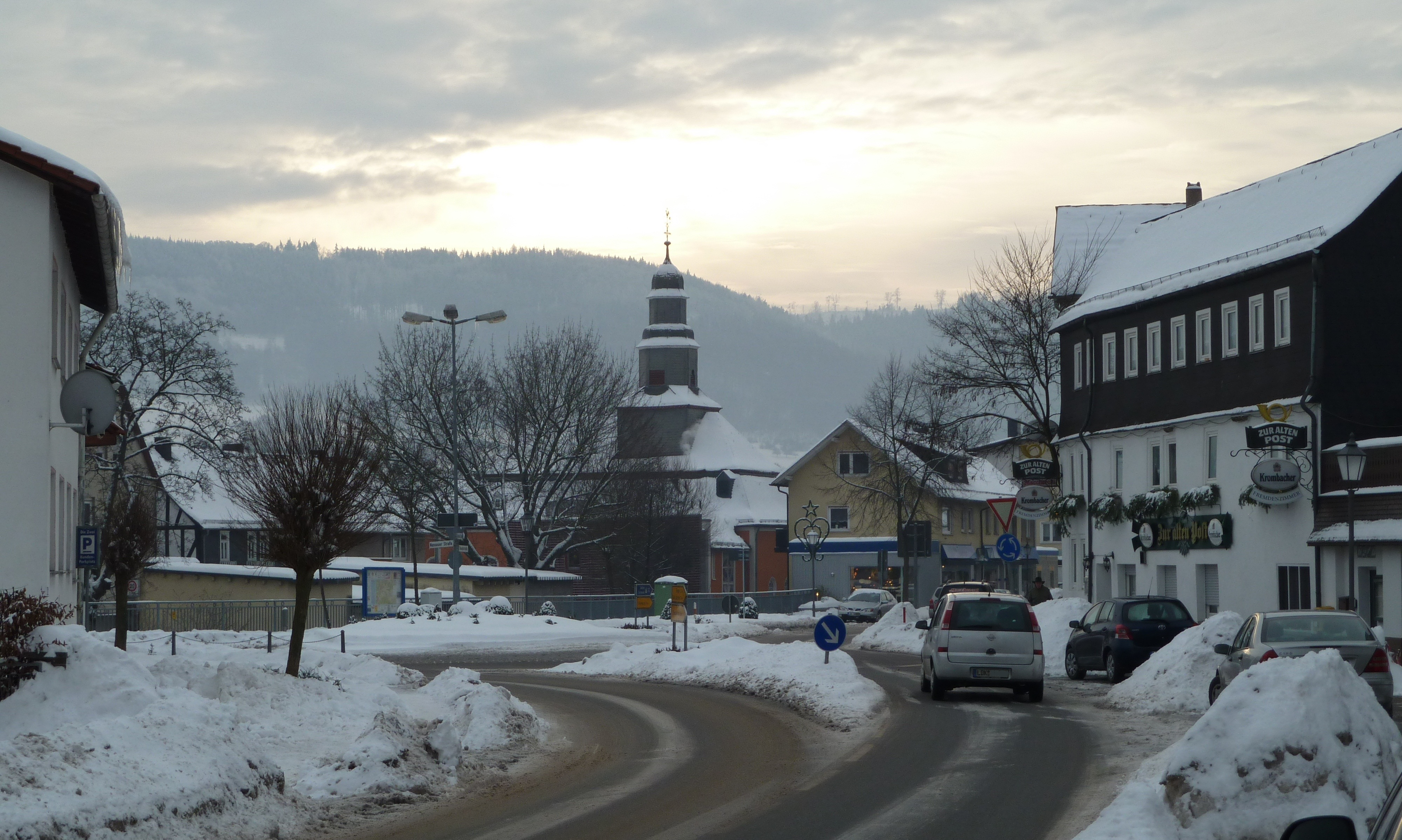 Centre of Eibelshausen, Germany